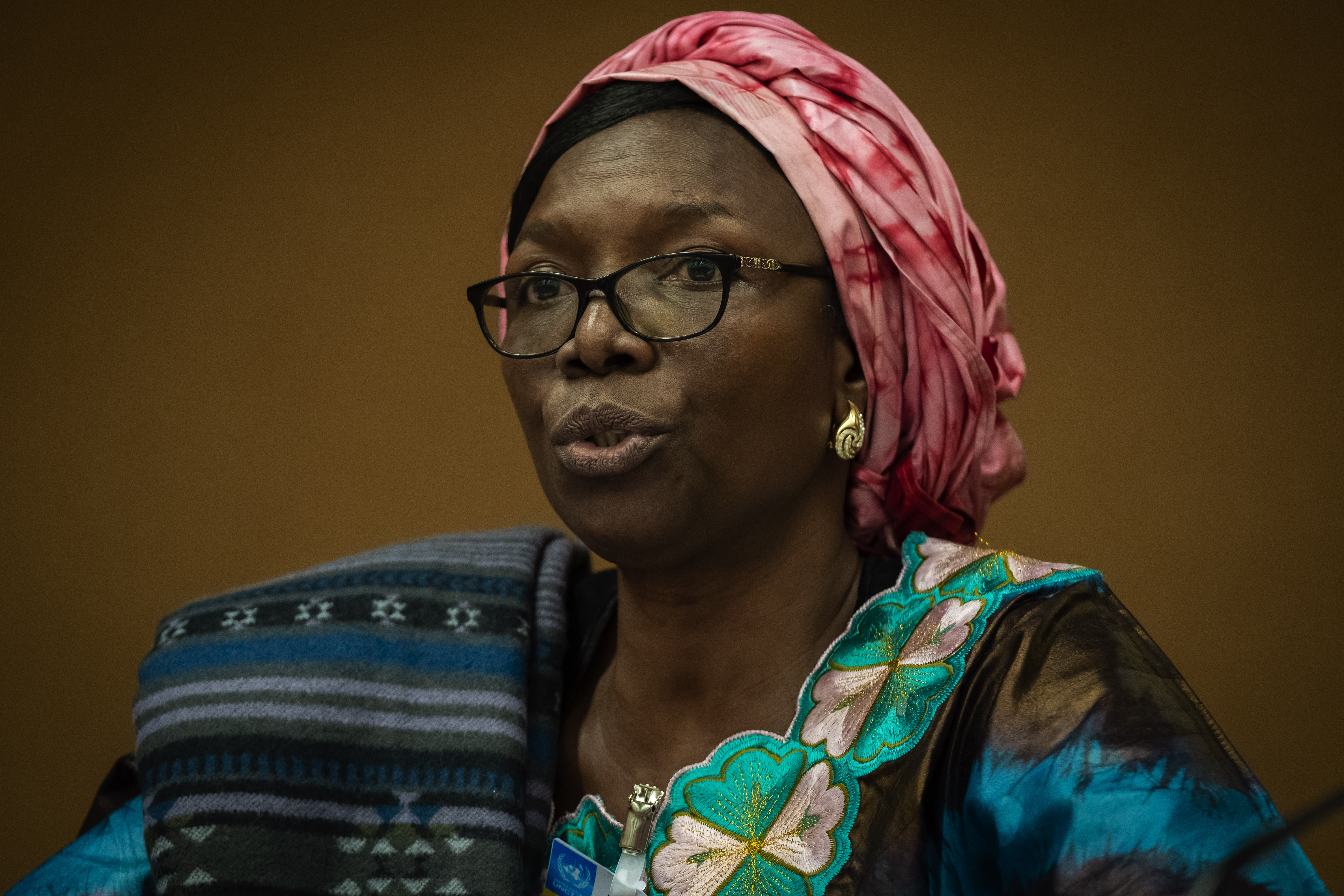 Achta Djibrine Sy, Minister of Mining, Industrial and Commercial Development, and Private Sector Promotion of the Republic of Chad At the presentation of UNCTAD's investment policy review for Chad on 12 November 2019 in Geneva, Switzerland. Photo: Tim Sullivan (UNCTAD) More